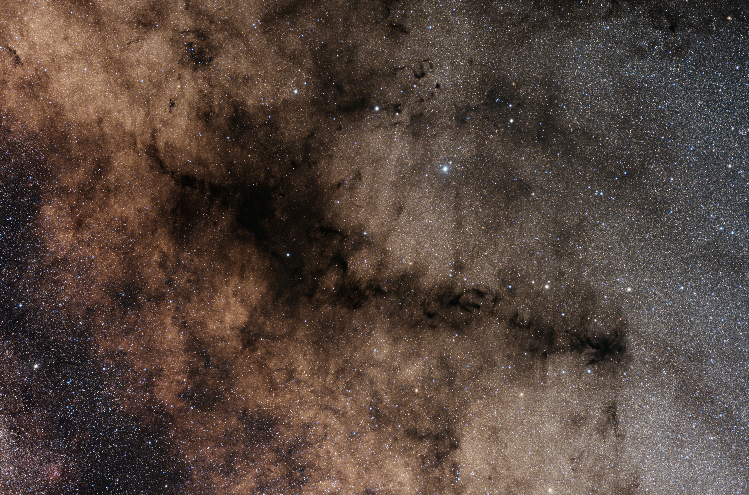 Portrayed in this image is a picturesque dust lane obscuring some of the Milky Way stars, usually referred to as the Pipe Nebula due to its curious shape. Also known under the more technical names Barnard 59, Barnard 65-67, and Barnard 78, this dark spot is visible to the naked eye in the constellation of Ophiuchus, the Snake Holder.